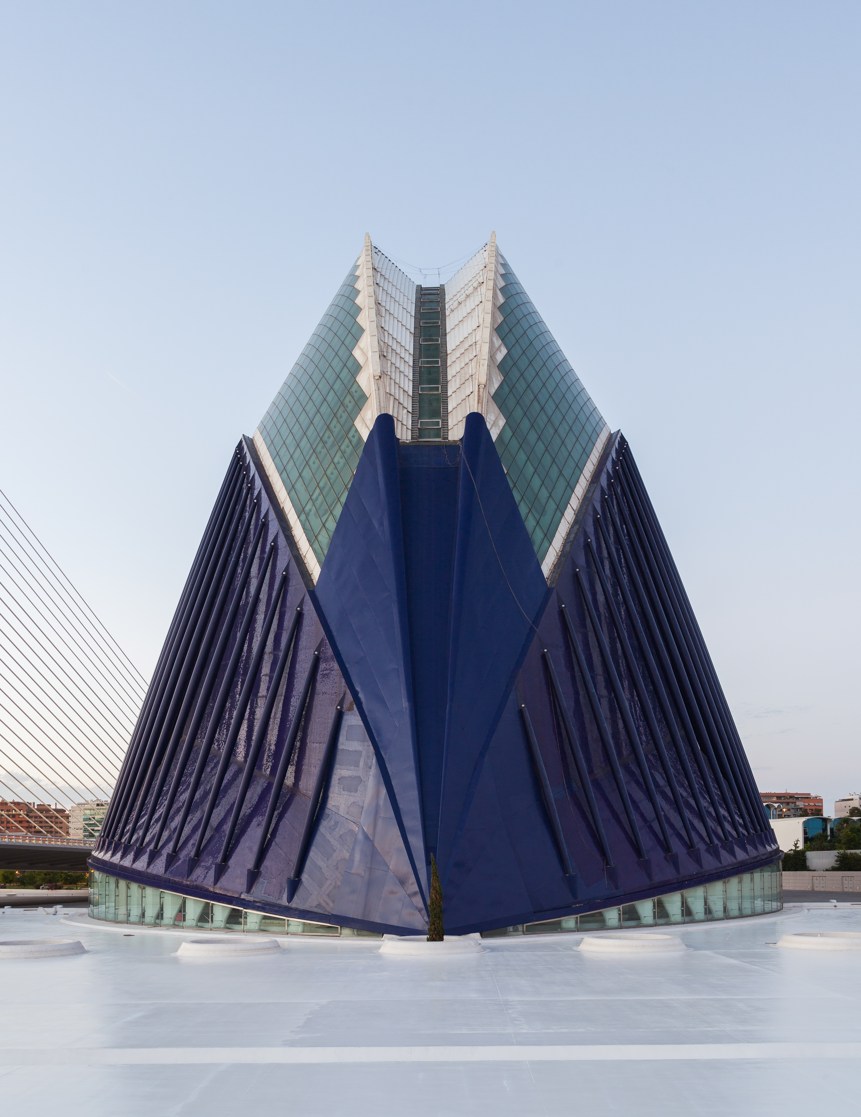 The Agora, City of Arts and Sciences, Valencia, Spain